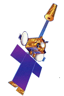 Insat 3A image as perceived in space